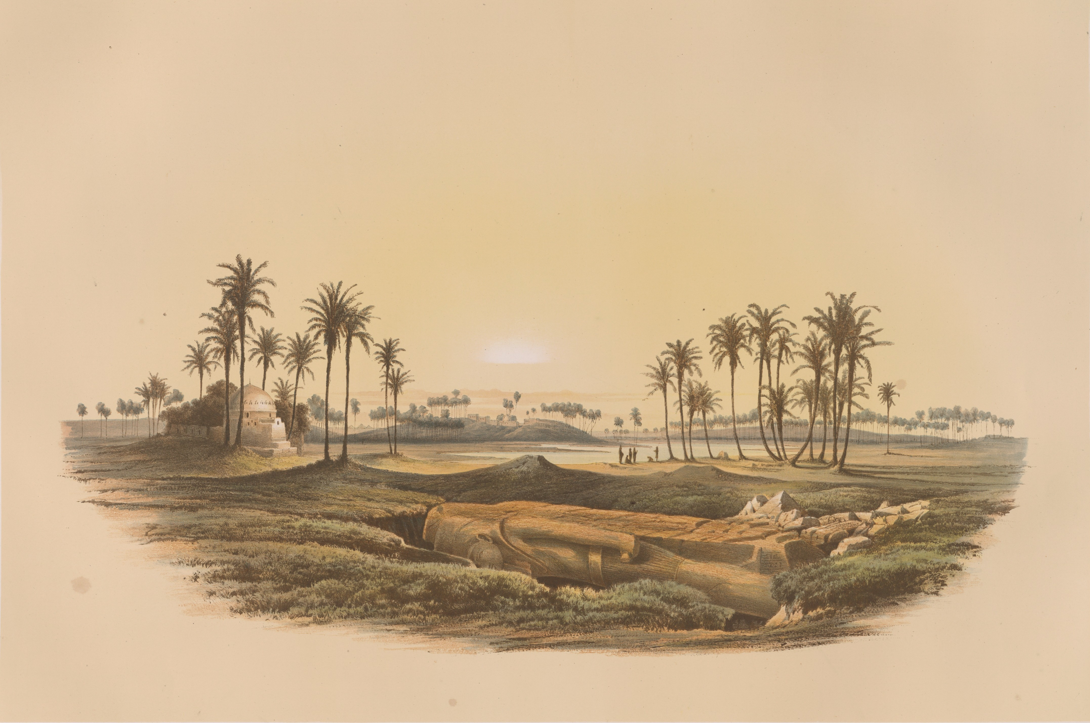 Ansicht der Ruinen von Memphis.